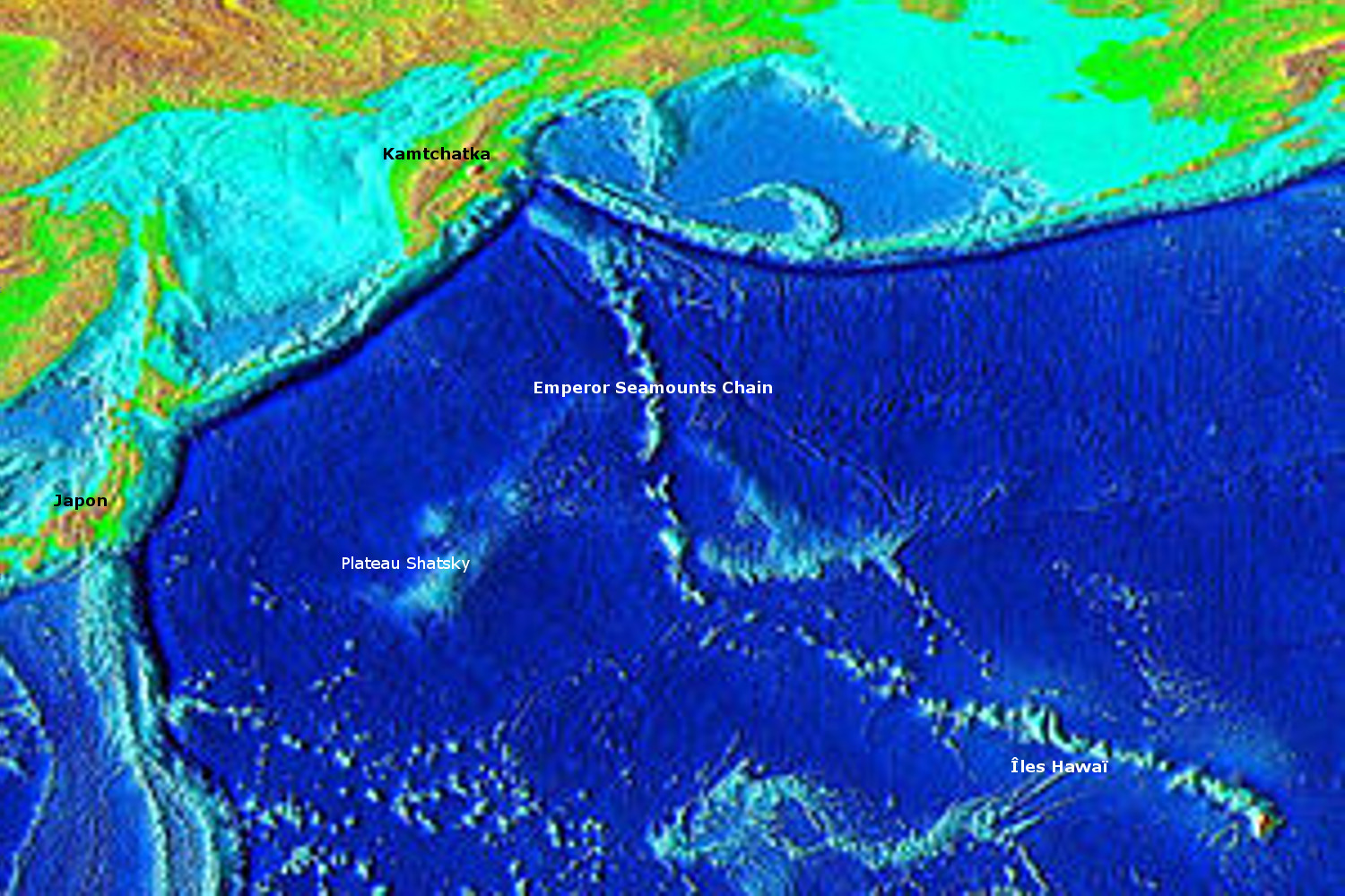 Hawaiian-Emperor seamount chain